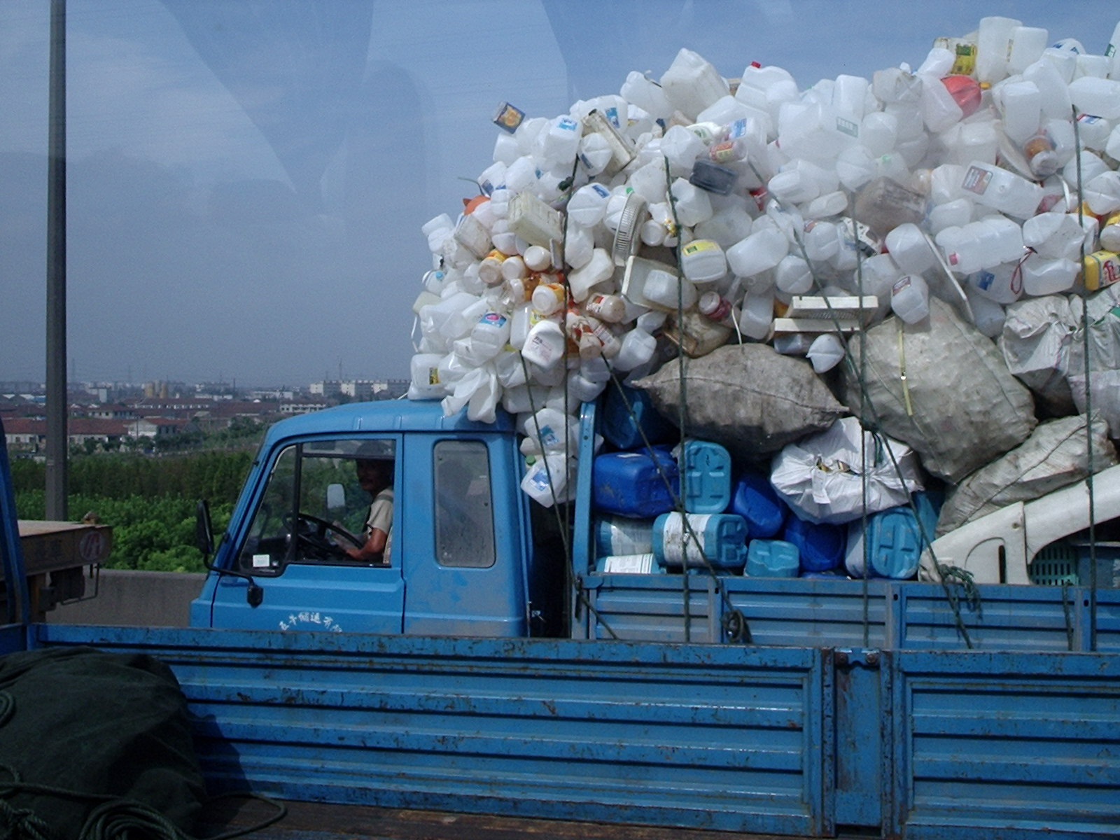 A truck laden down with products to be recycled travels along a highway in Shanghai.